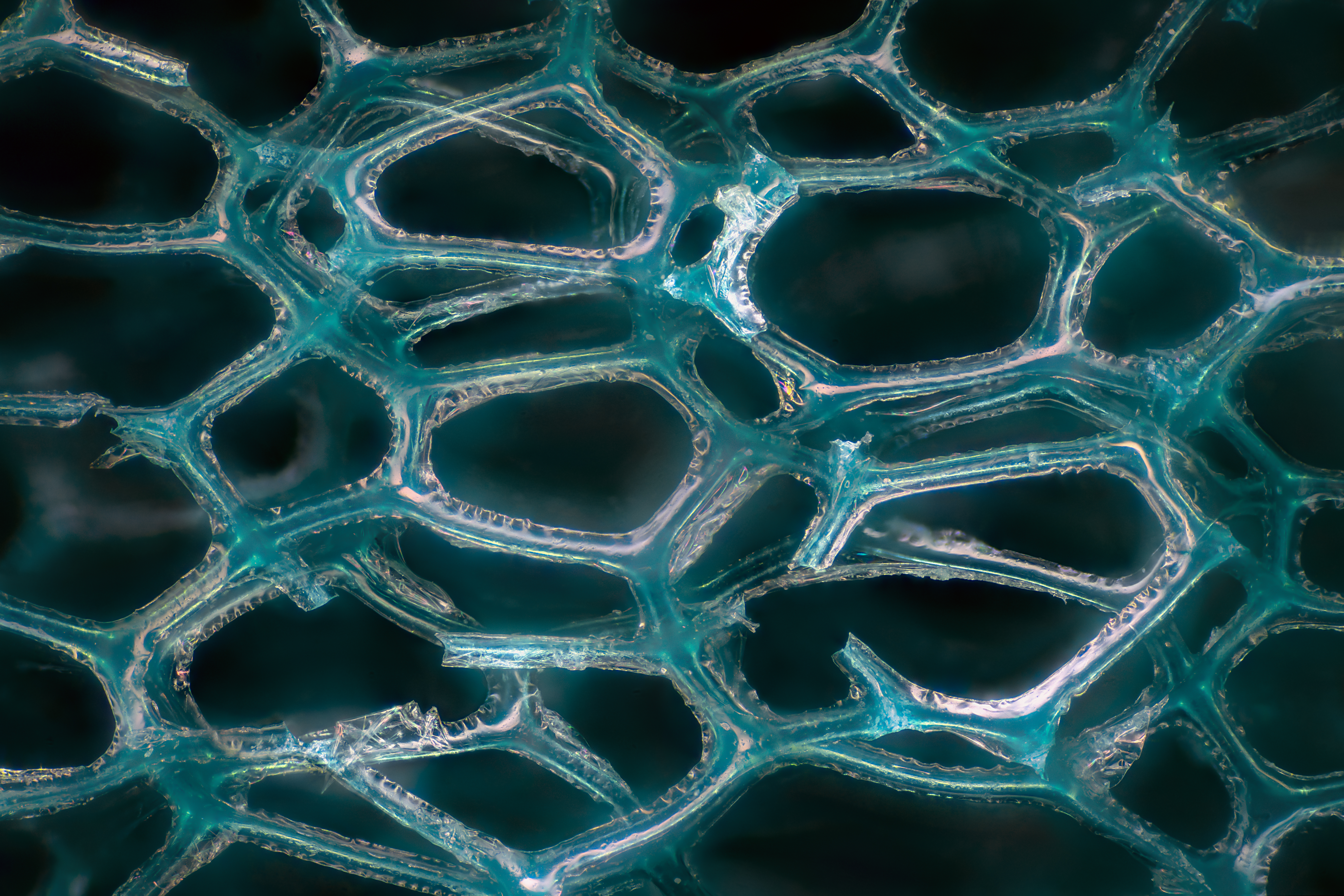 Urethane abrasive sponge under microscope